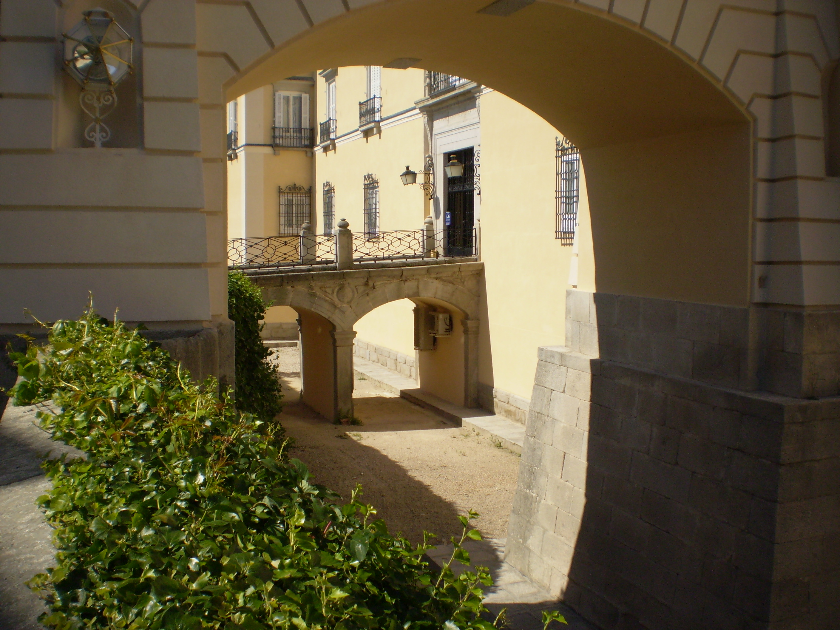 Royal Palace of El Pardo, Madrid, Spain